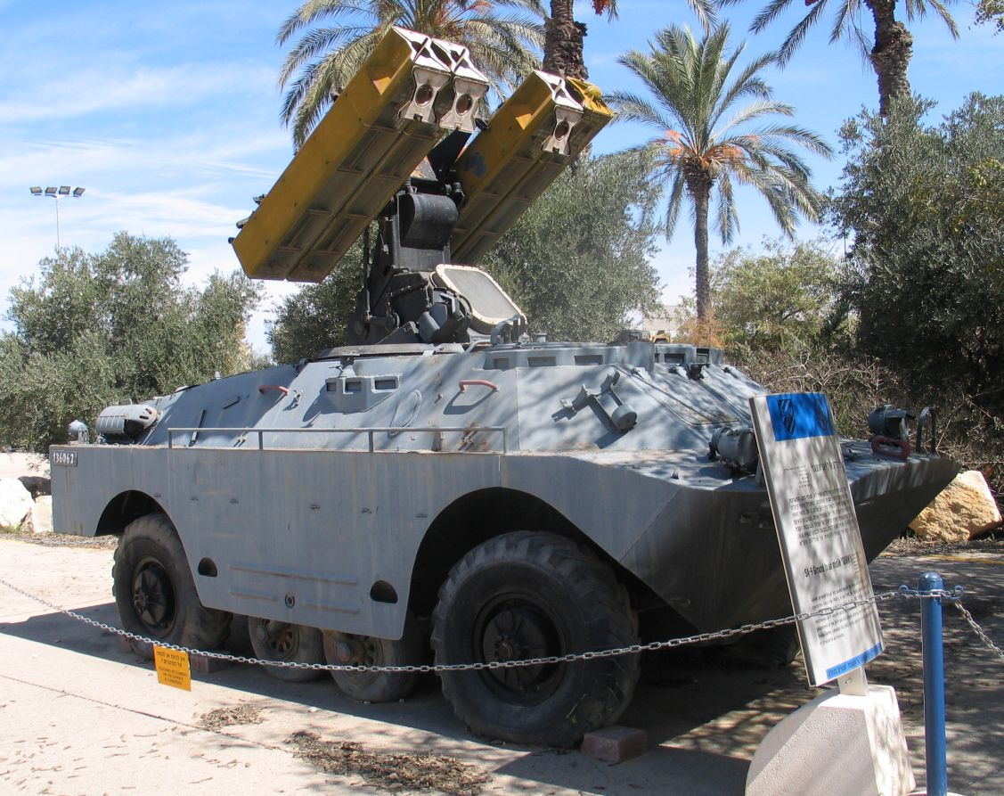 Description: SA-9 Gaskin AA missile system at Muzeyon Heyl ha-Avir, Hatzerim airbase, Israel. 2006. Source: Photo by me, User:Bukvoed.